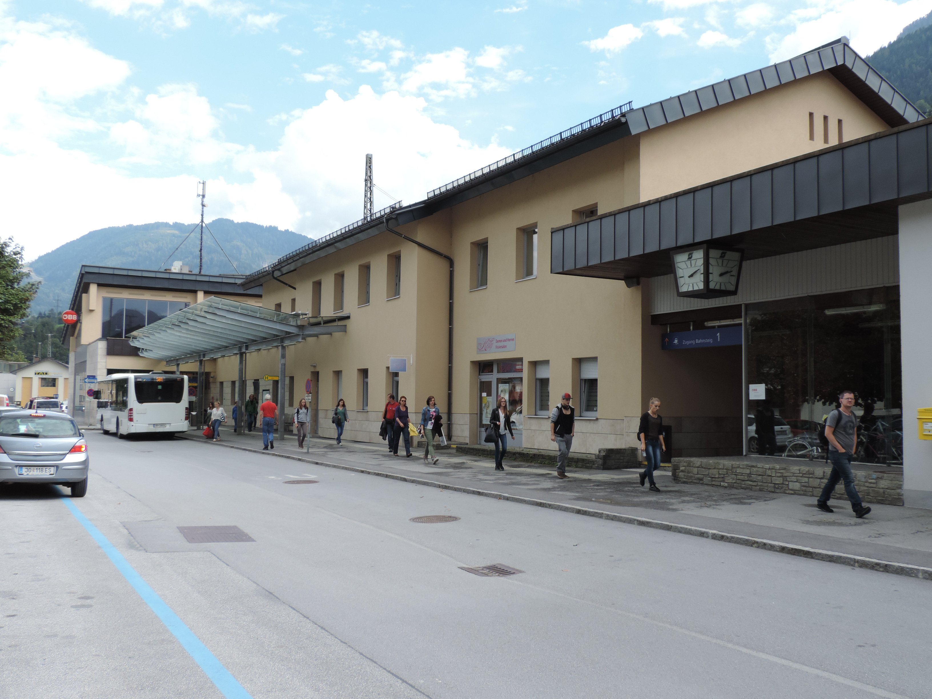 train station Schwarzach-St. Veit in Salzburg